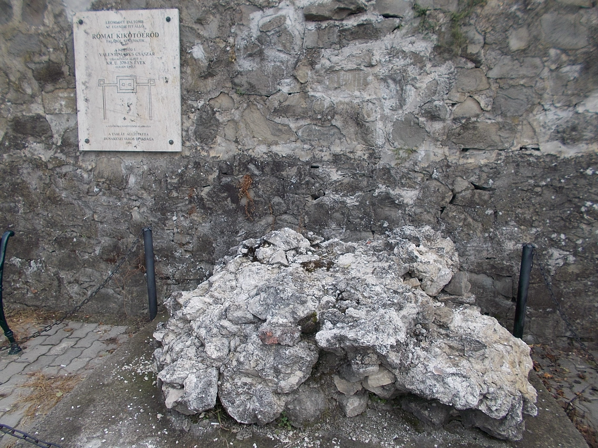 Roman castrum remains. There is ruins of a Roman military fortification on the left side of Danube river. It was a Roman outpost that had been pushed forward to the Barbaricum. - Dunakeszi, Pest County, Hungary.